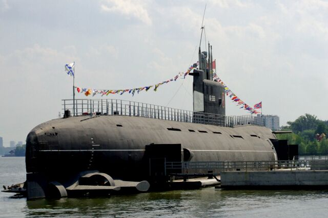 Submarine "Tango" (in the park "North Tushino")